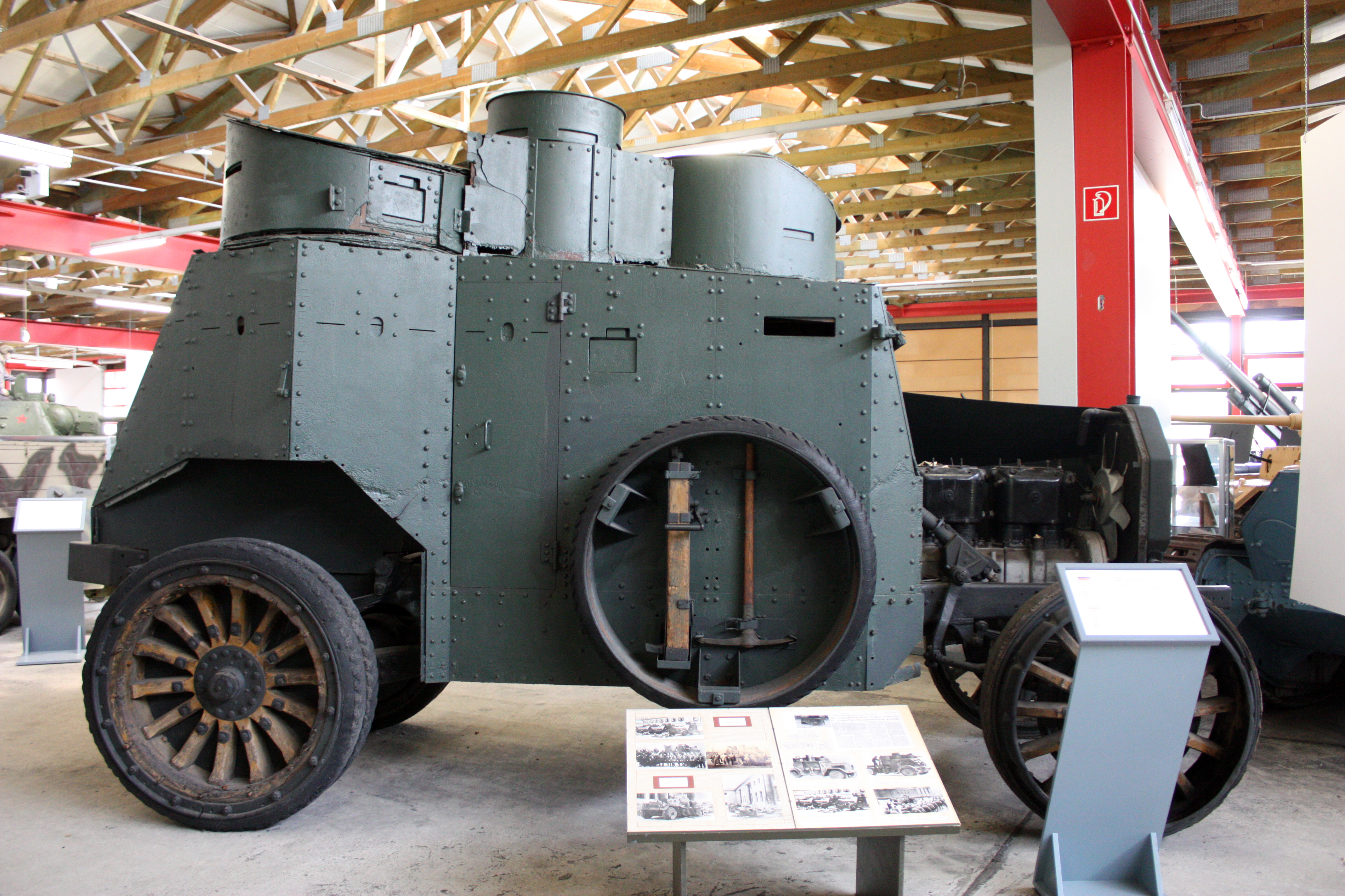 German Tank Museum